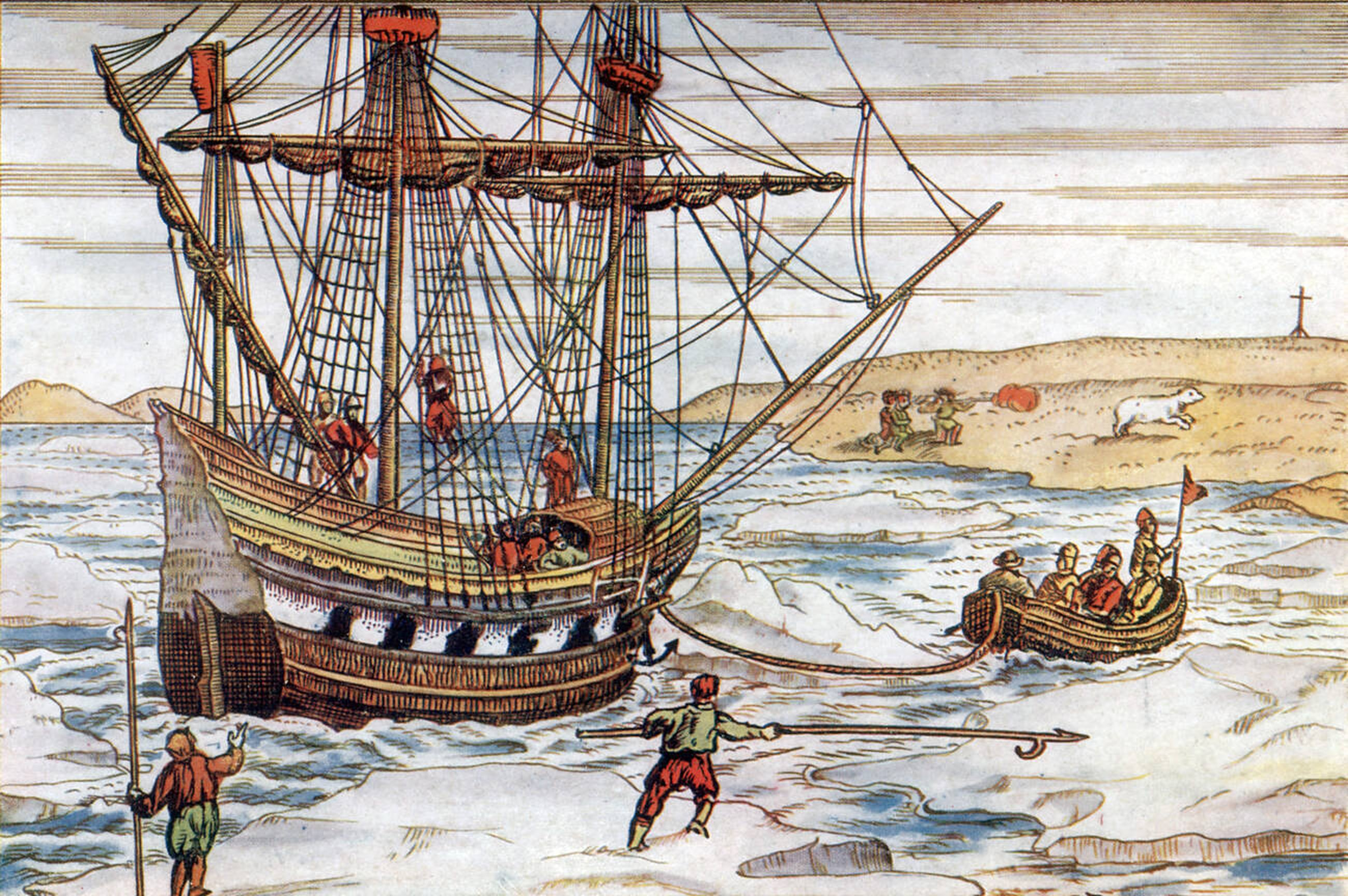 BARENTS'S SHIP AMONG THE ARCTIC ICE.